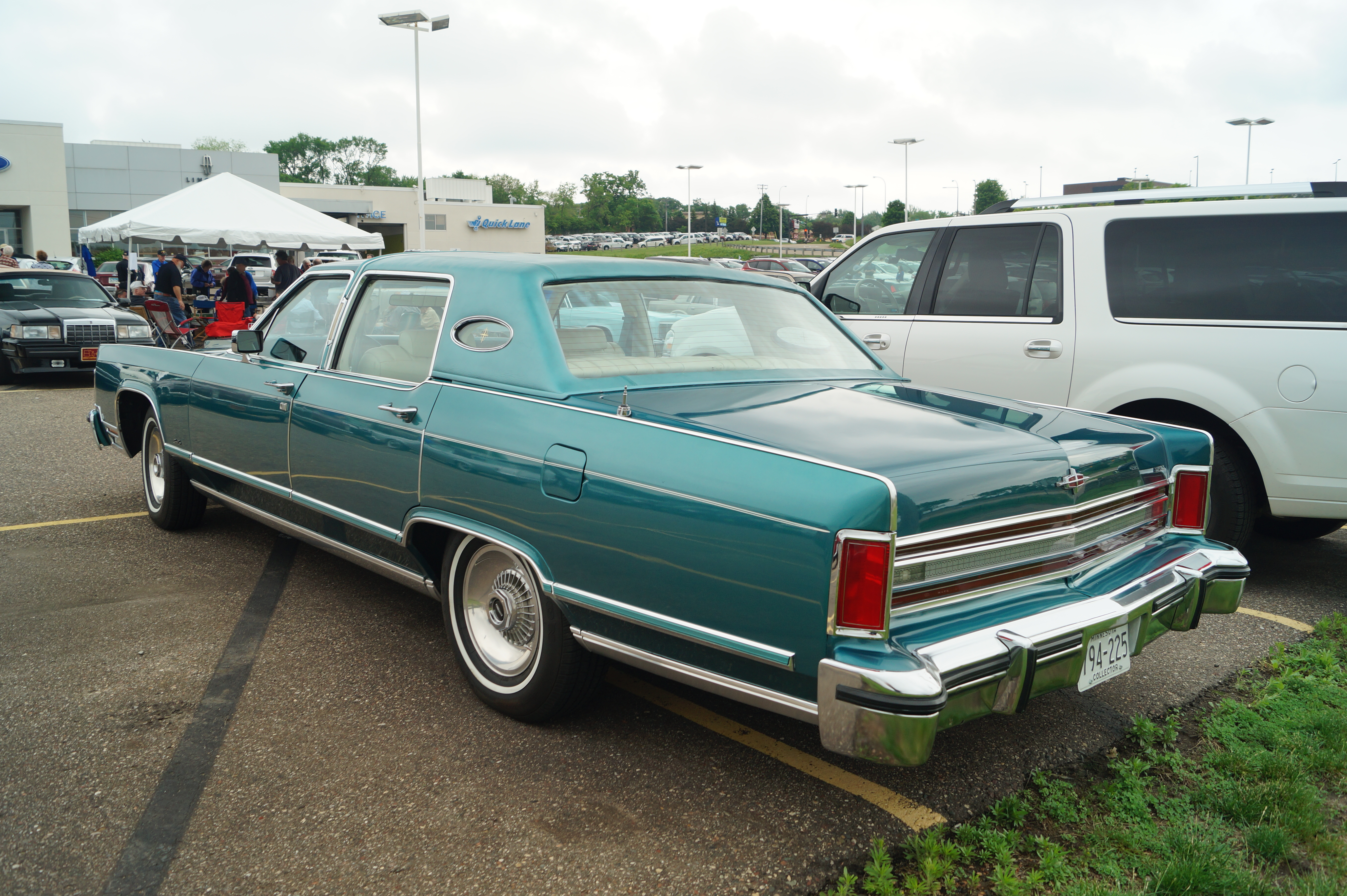 Lincoln & Continental Owners' Club North Star Region 8th Annual Classic Lincoln Car Show Morrie's Minnetonka Ford-Lincoln Minnetonka, Minnesota Click here for more car pictures at my Flickr site.